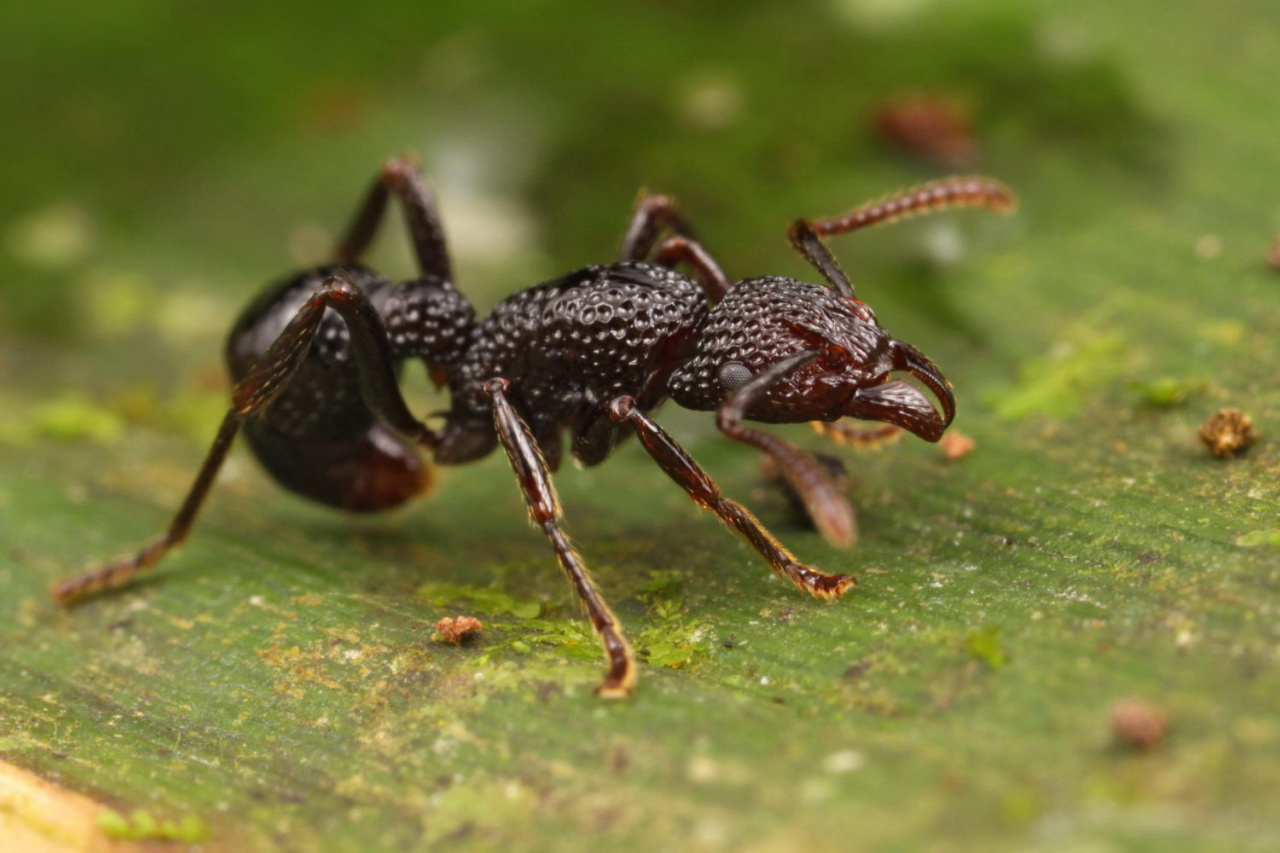 Shattuck_53031, Gnamptogenys, Danum Valley, Sabah-final_resize